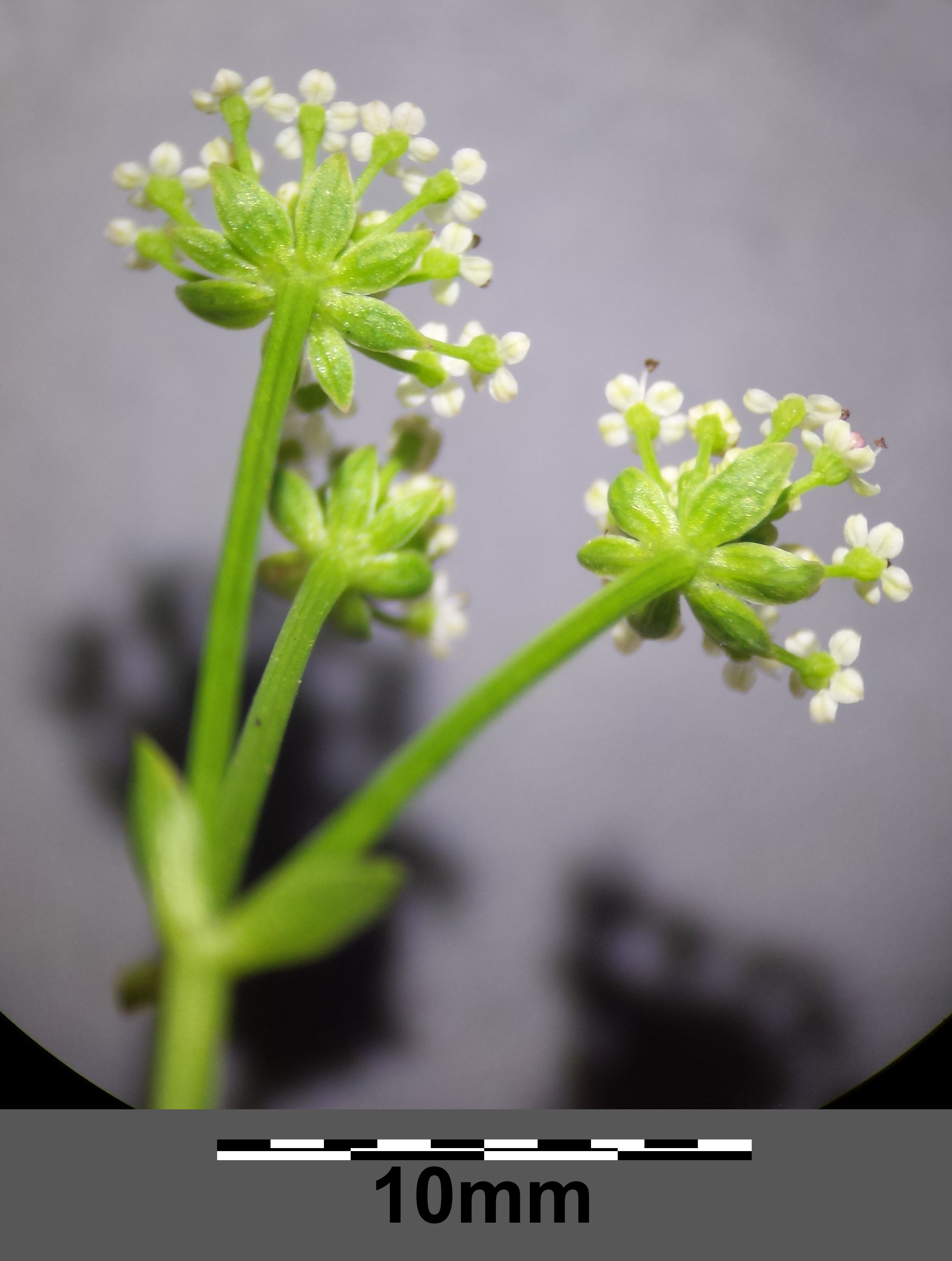 Umbel Taxonym: Helosciadium repens ss Fischer et al. EfÖLS 2008 ISBN 978-3-85474-187-9 Location: Donaupark, Vienna-Donaustadt - ca. 160 m a.s.l. Habitat: turf